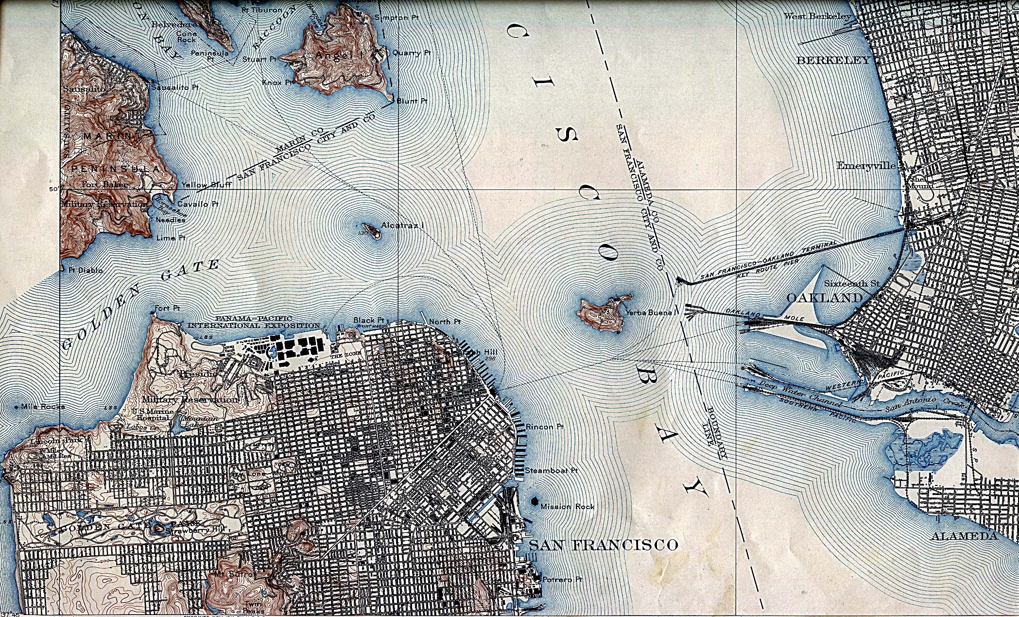 Map of San Francisco Area in 1915, originally listed at